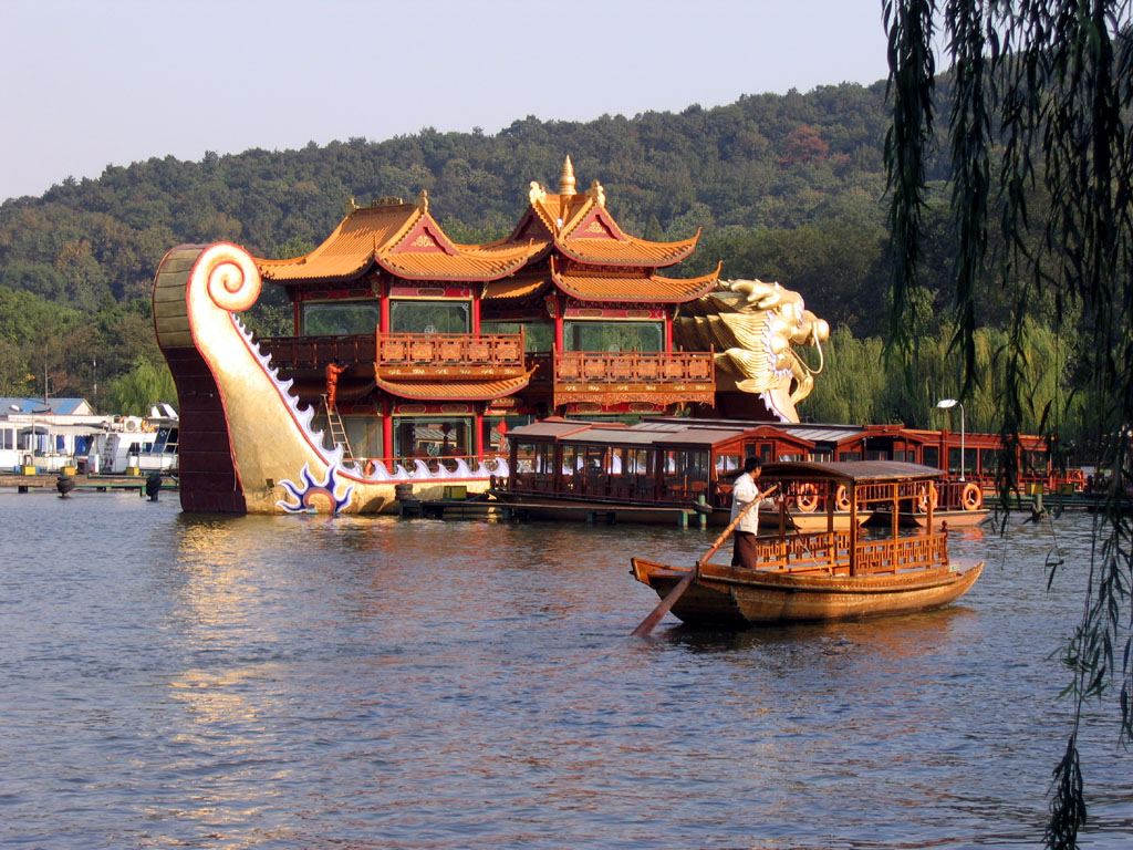 China Hangzhou Westlake, buildings